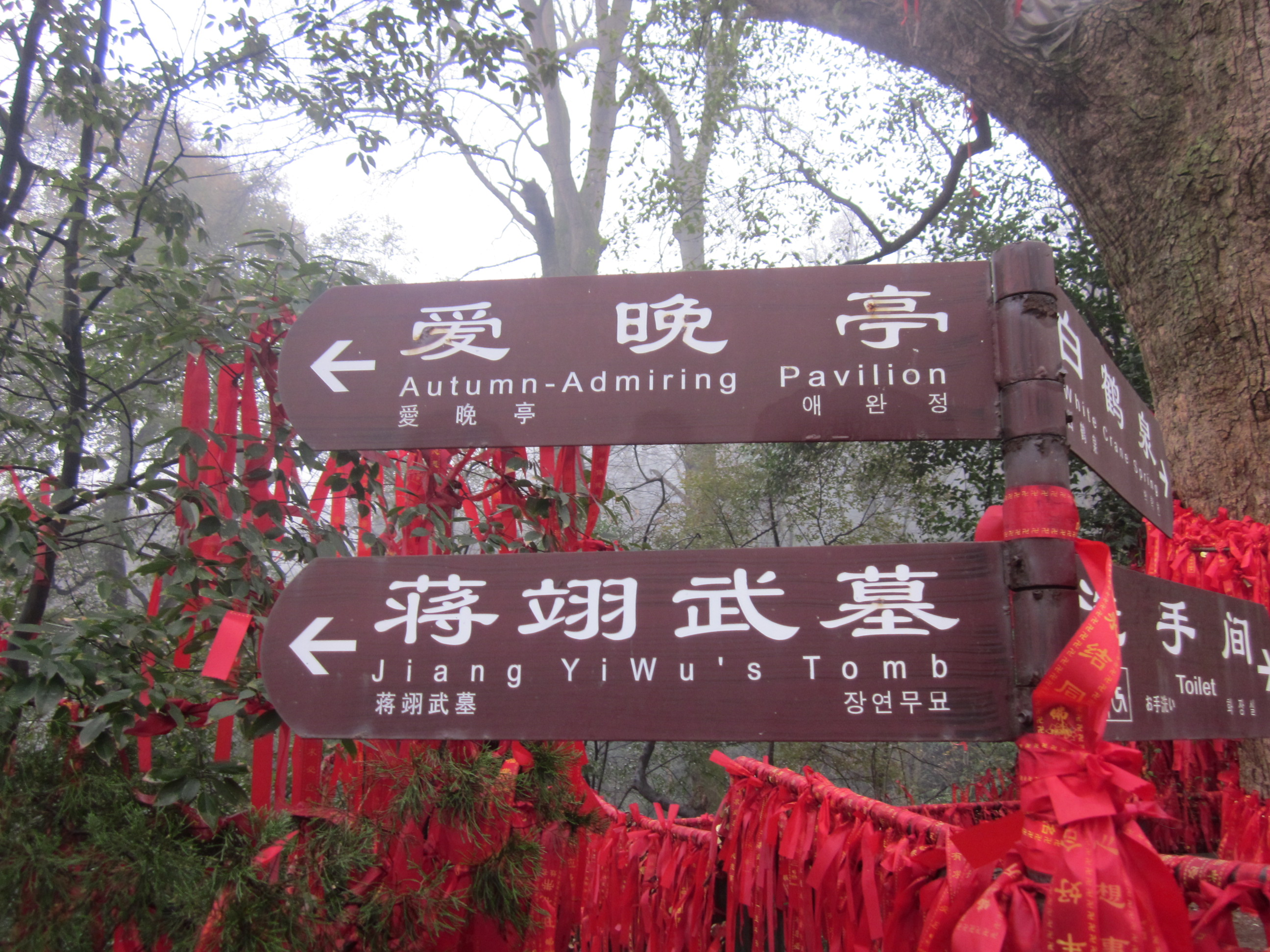 Road signs in Mount Yuelu. Turn right for "Toilet", and turn left for "Autumn-Admiring Pavilion" and "Jiang Yiwu's Tomb". 中文（中国大陆）: 岳麓山路标。向左转是“洗手间”，向右转是“爱晚亭”和“蒋翊武墓”。